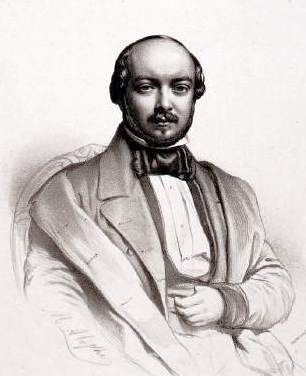 Belgian harpist and composer Félix Godefroid (1818-1897) by Marie-Alexandre Alophe (1812-1883).